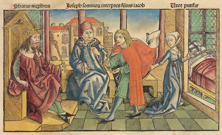 Joseph and Potiphar. Woodcut from the Nuremberg Chronicle